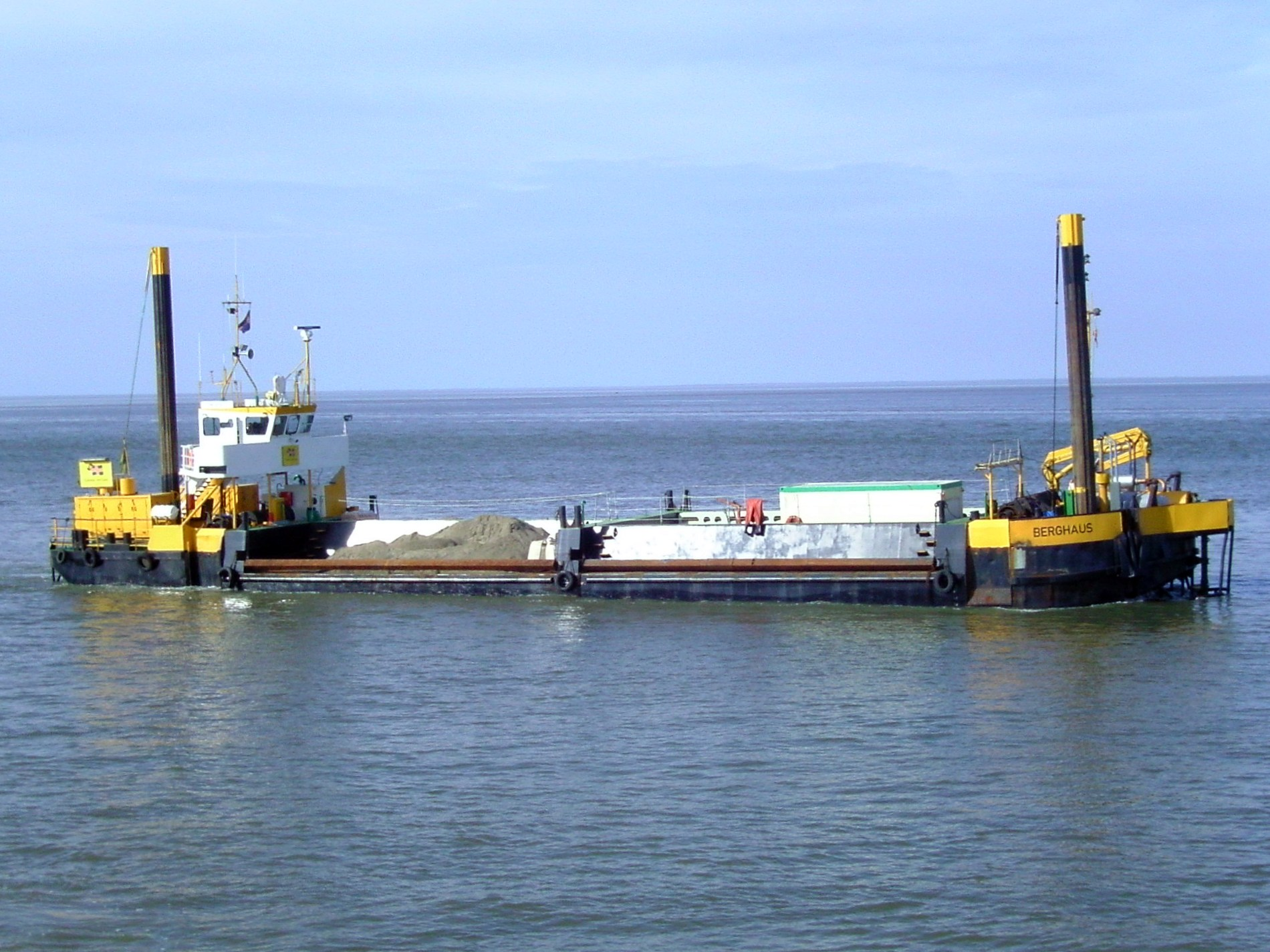 The stone dumping vessel Berghaus on the River Elbe in front of Cuxhaven. Owner of the ship is Colcrete-von Essen GmbH & Co. in Rastede, Germany. More: external website.